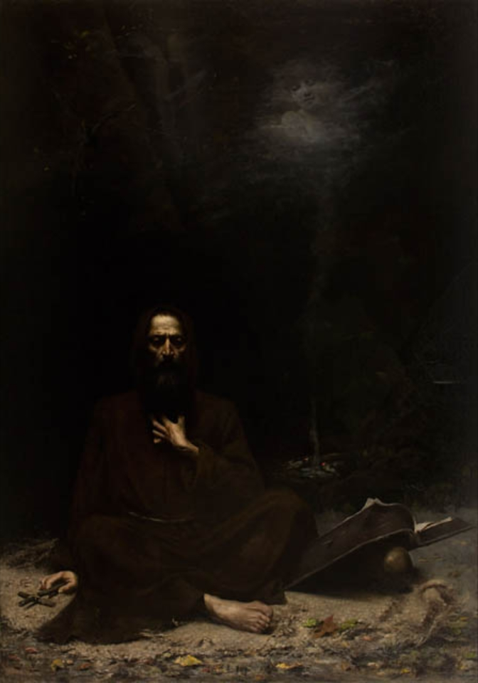 The Temptation of St. Anthony (in